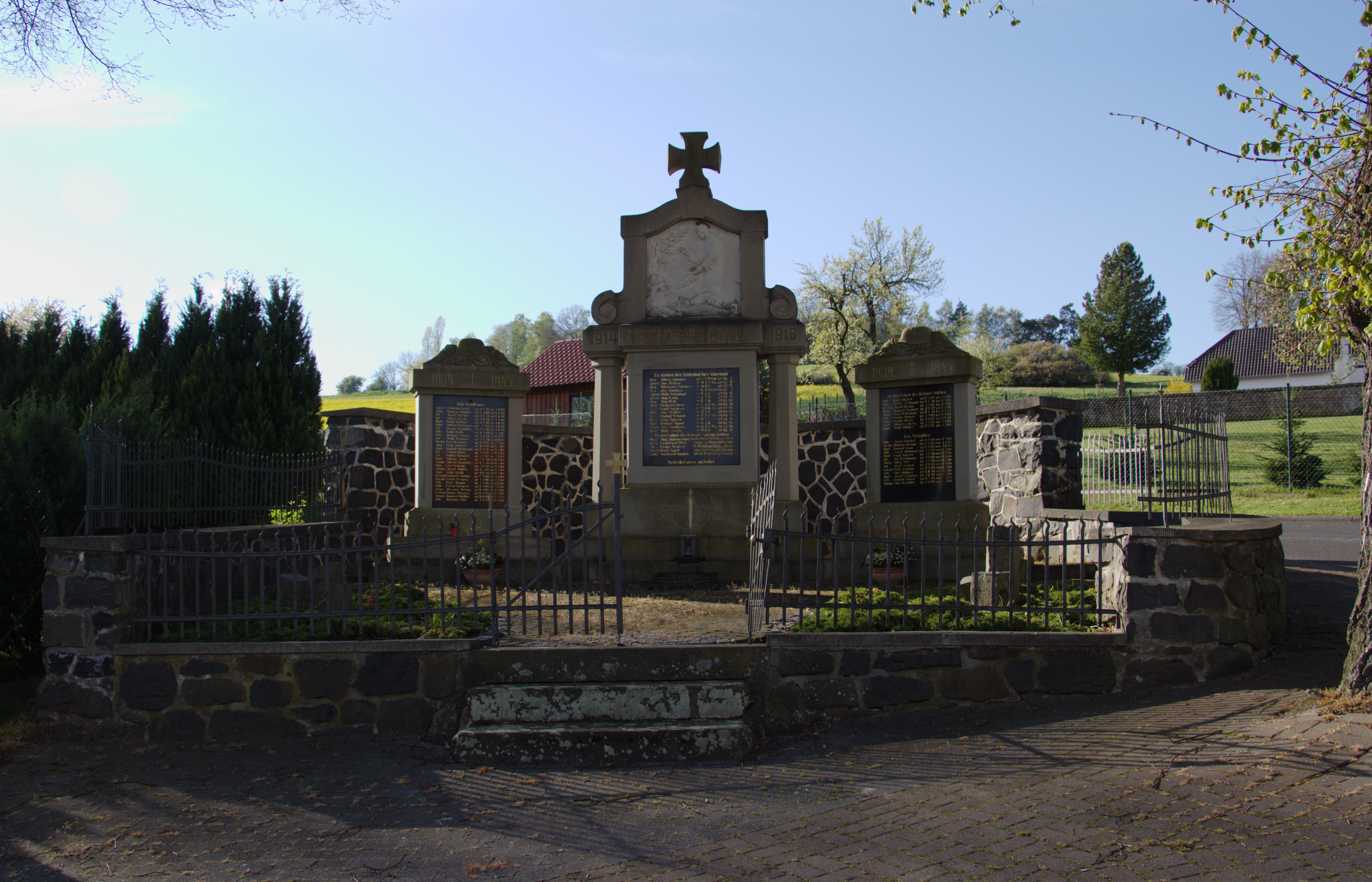 WW Memorial in Blankenau Friedhofstrasse, Hosenfeld, Hessen, Germany